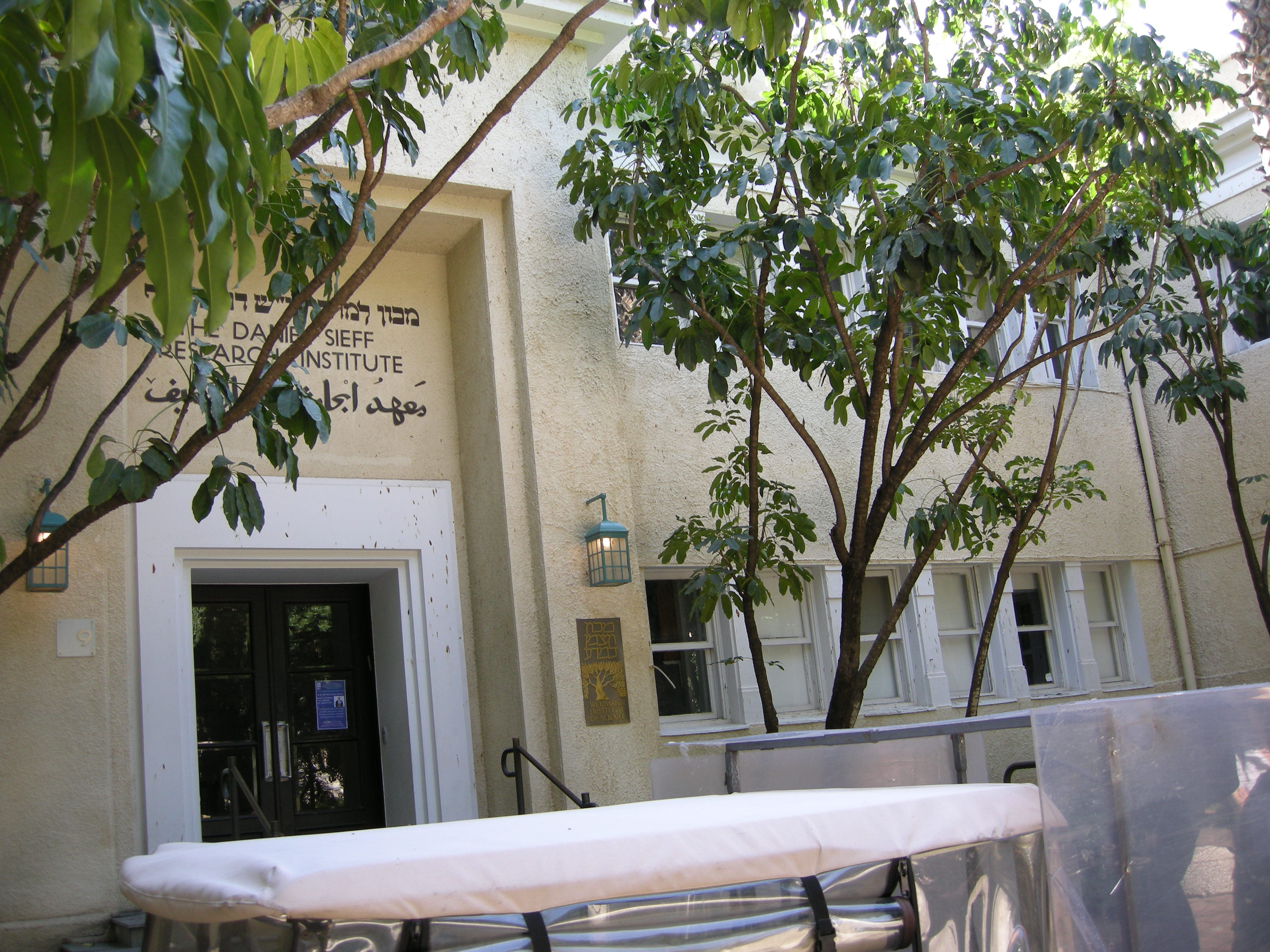 Weizmann Institute of Science photos taken during a wikipedia guided tour